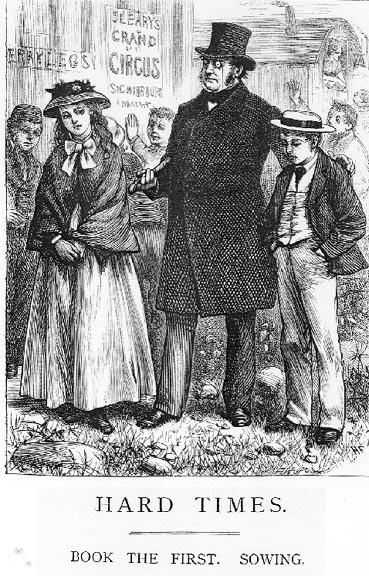 "Untitled [Thomas Gradgrind Apprehends His Children Louisa and Tom at the Circus]" Wood engraving 10.1 × 13.7 cm (4 × 5.4 in)